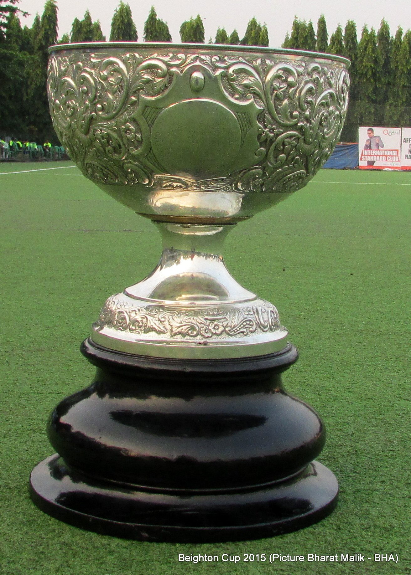 The famous Beighton Cup in all its glory as it is today.